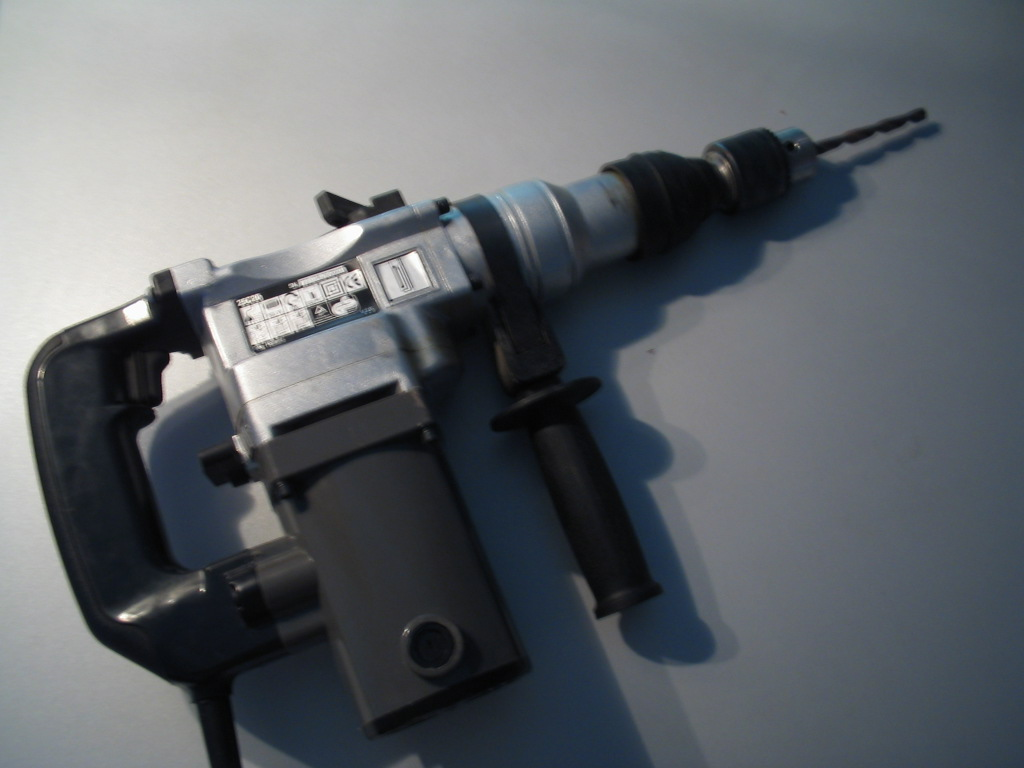 boormachine